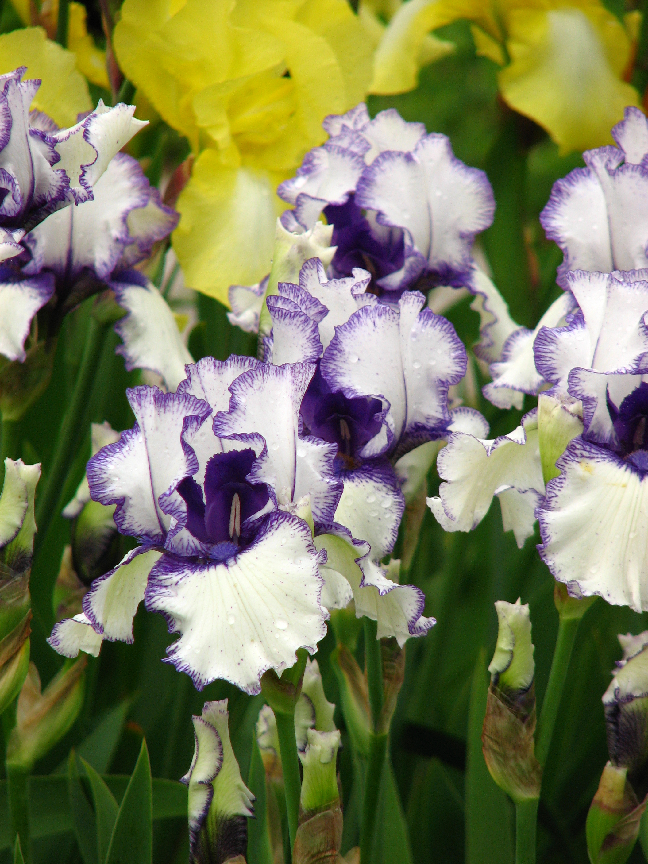 Iris 'Orinoco Flow'. From the collection of the Botanical Garden of Moscow State University (main area on the Sparrow Hills).